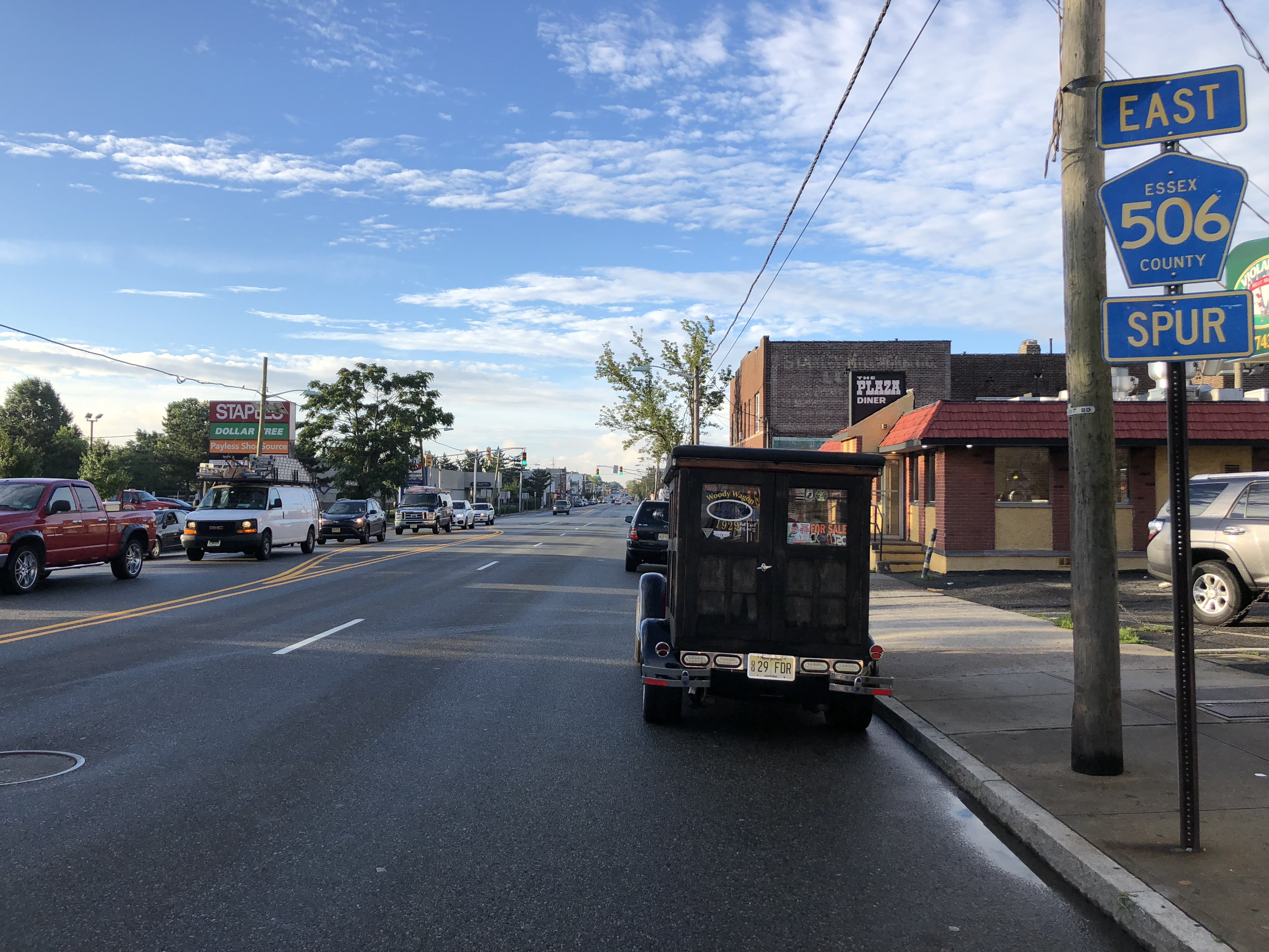 View east along Essex County Route 506 Spur (Bloomfield Avenue) just east of Essex County Route 509 (Grove Street) in Bloomfield Township, Essex County, New Jersey